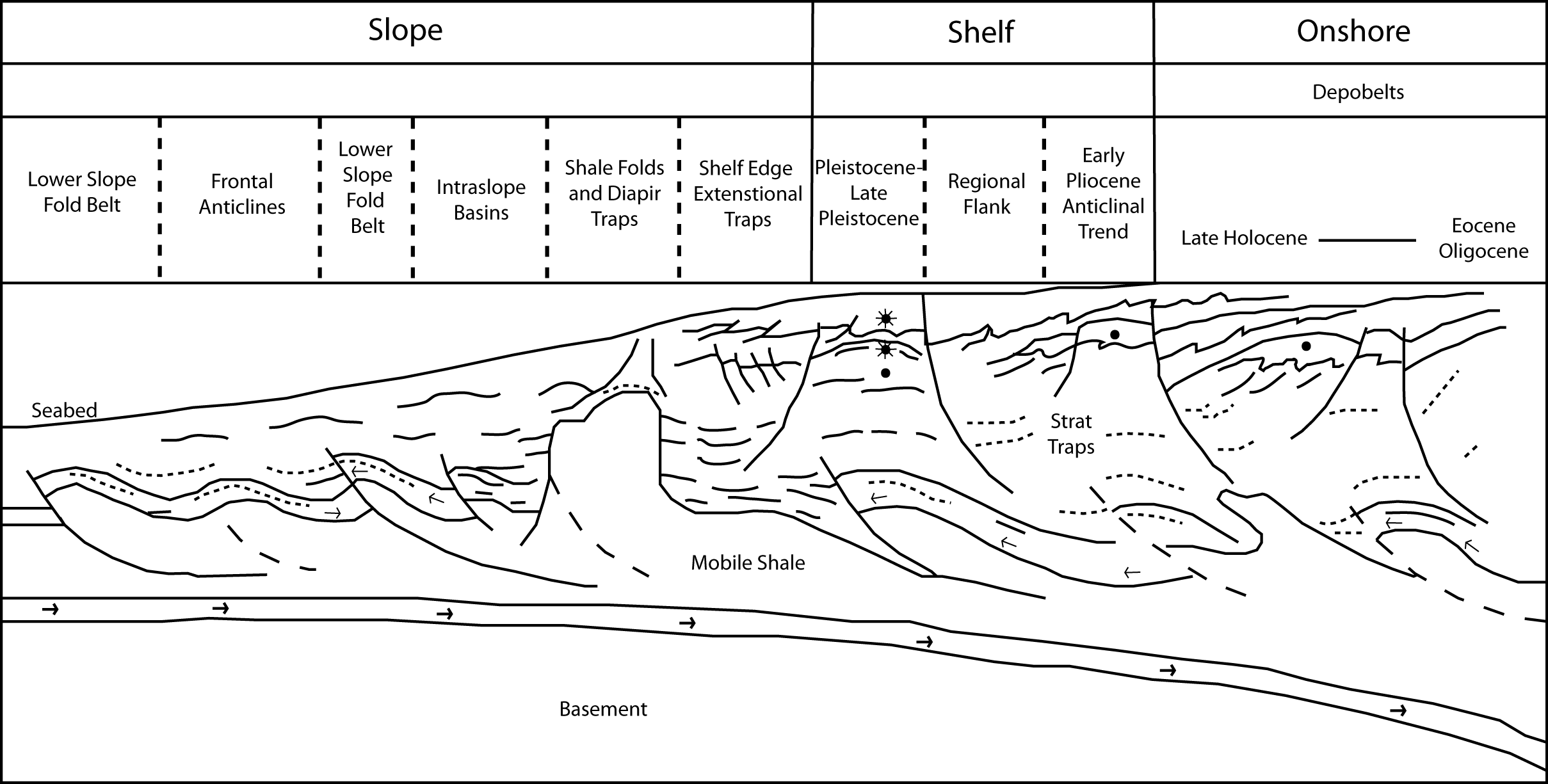 Schematic structural profile of the deep water area of the Niger Delta. Modified from Ojo (1996)